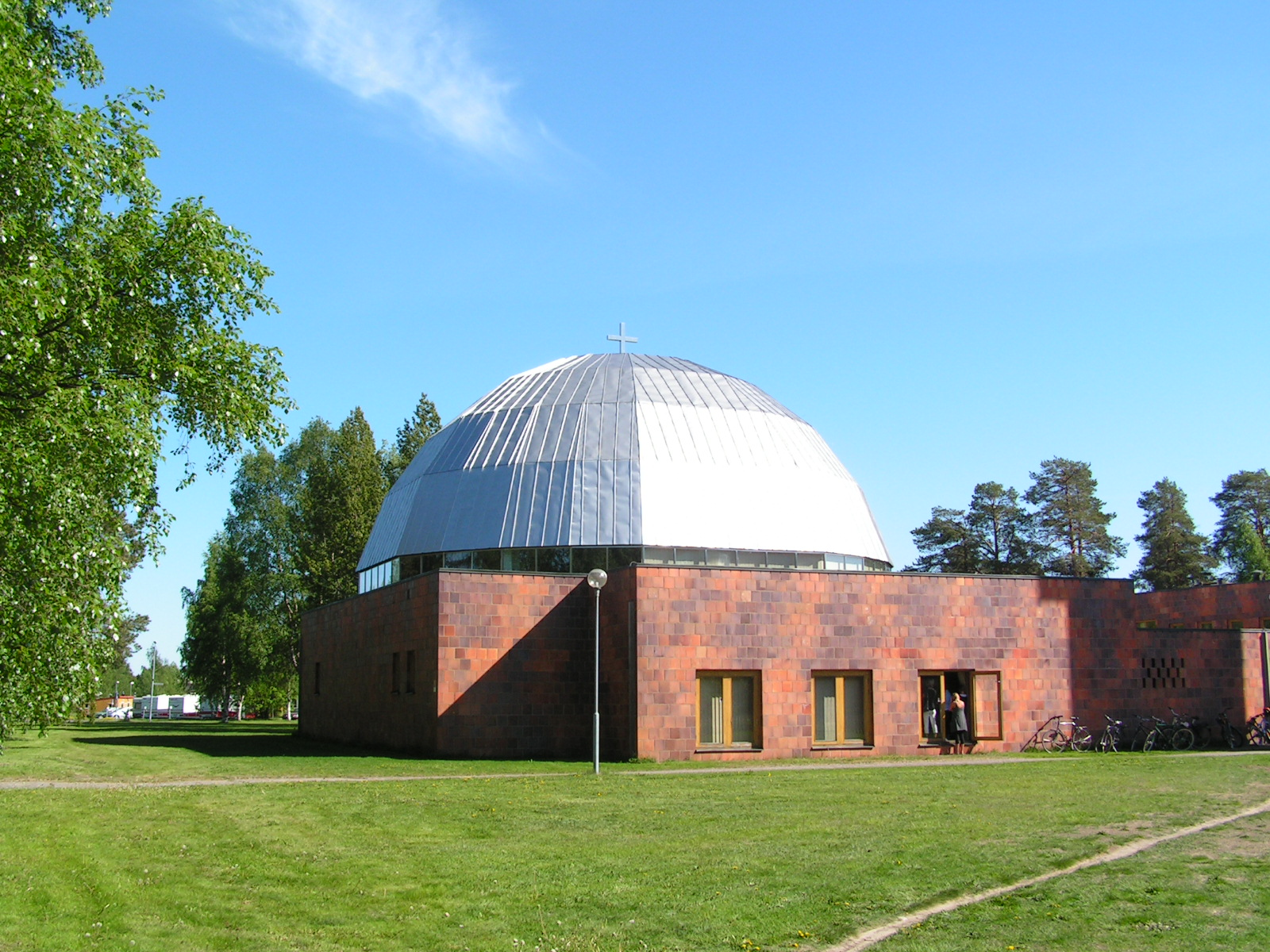 Church of Mjölkudden, Luleå, Sweden